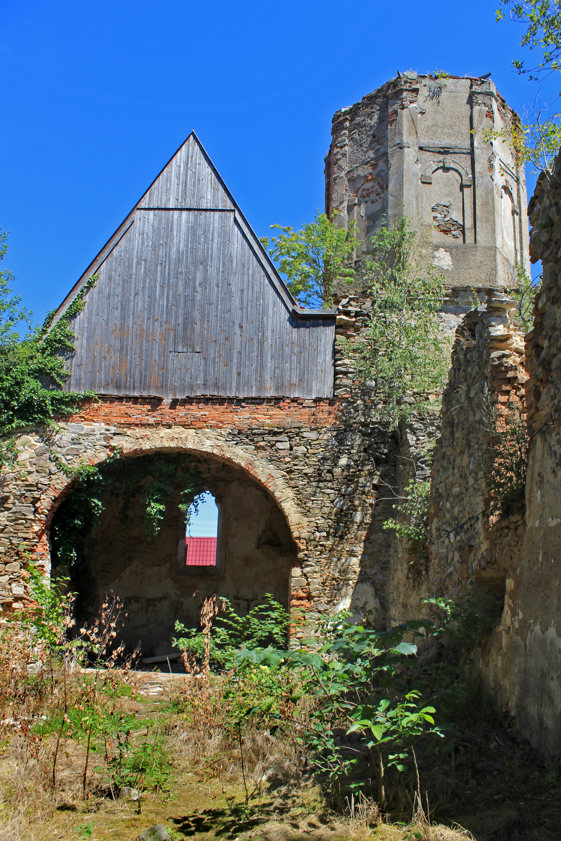 Ruins of the church in Šitboř, part of Poběžovice, Czech Republic.